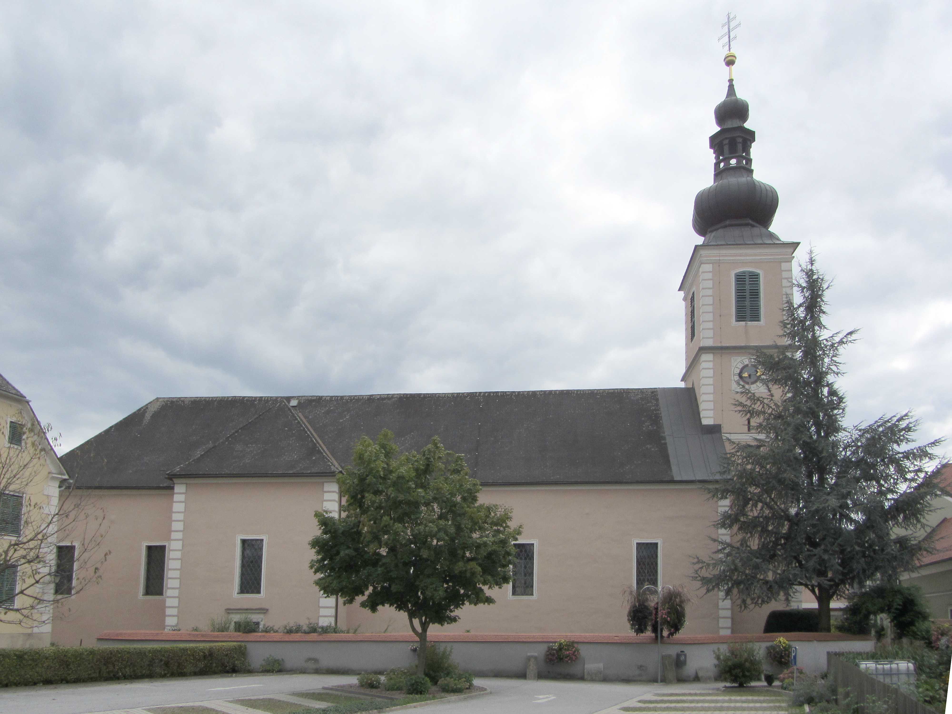 Mooskirchen Die Pfarrkiche im September 2012